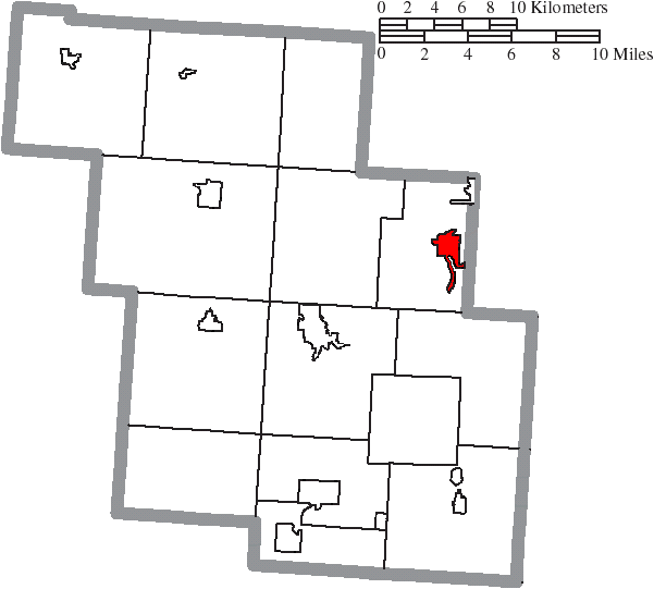 Map of the municipal and township boundaries of Perry County, Ohio, United States, as of the 2000 census, with the location of the village of Crooksville highlighted. Township borders are shown only in unincorporated areas in order to differentiate incorporated and unincorporated areas more clearly.